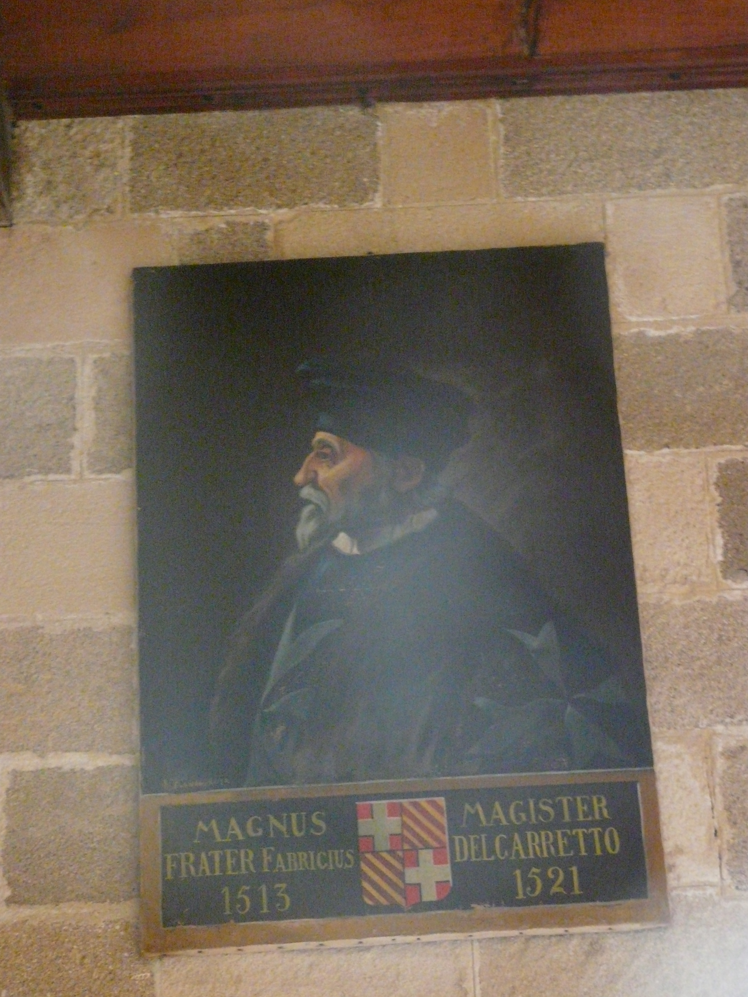 Palace of the Grand Master of the Knights of Rhodes